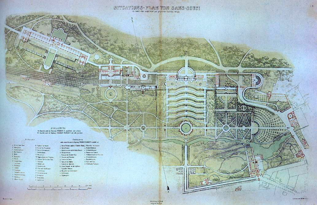 Project for a "Trimphal Road" in Sanssouci, Potsdam, Germany